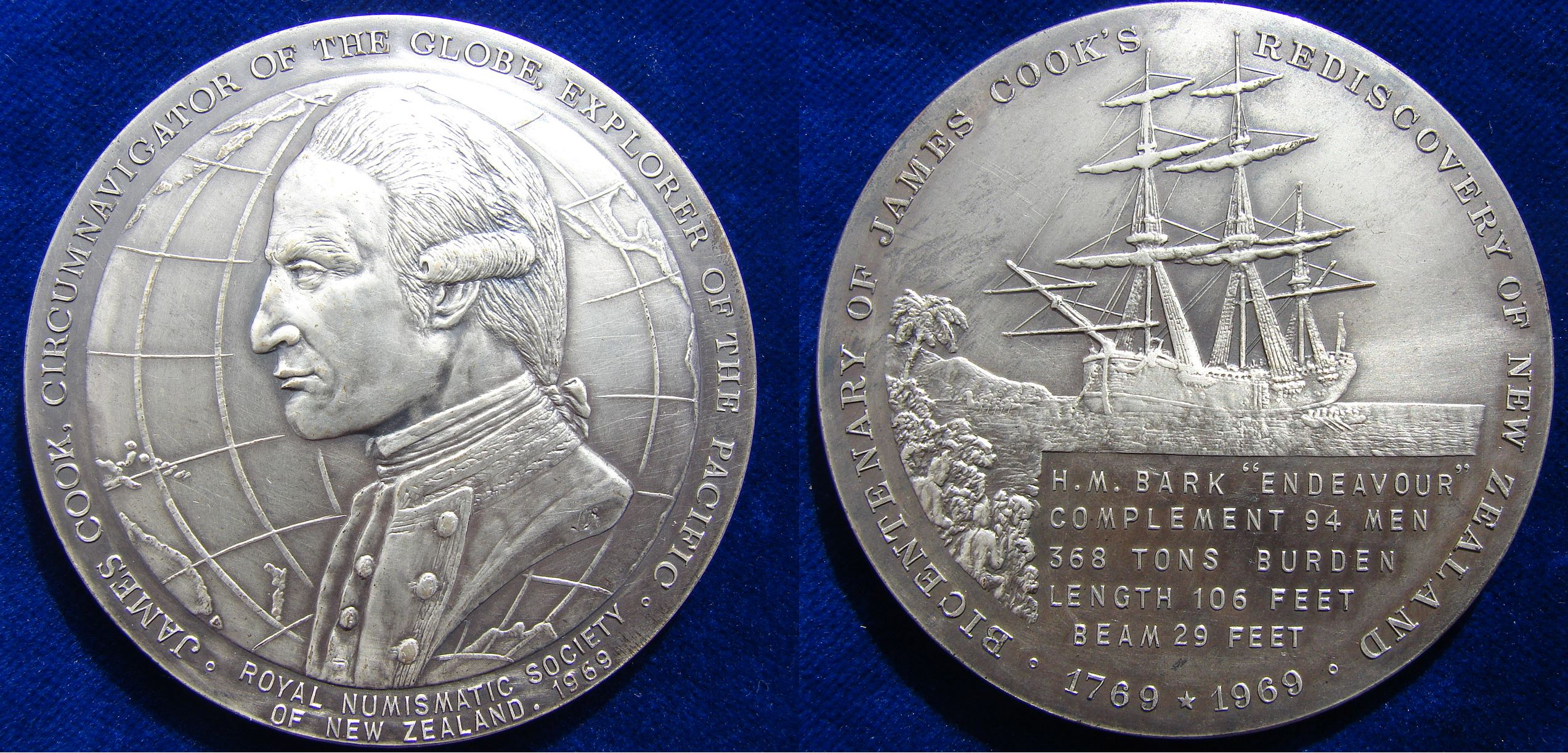 This is THE medallion of the Royal Numismatic Society of New Zealand to commemorate the beginning of modern NZ in 1769. D.= 63 mm. 122.19 g Ag 0.925 Sterling Silver. Cook, James, 1728 Marton (Yorkshire) - 1779 (Hawaii) Uniformed bust l. on the map of the Pacific, with NZ to the left, then Tasmania and the east coast of Australia, further north part of New Guinea and the Solomon Islands, Japan, in the East Central America, and parts of the coast of South America. Surrounded by : "· JAMES COOK CIRCUMNAVIGATOR OF THE GLOBE. EXPLORER OF THE PACIFIC · ROYAL NUMISMATIC SOCIETY OF NEW ZEALAND · 1969" / Sailing ship Endeavour r. anchored in harbour, below : "H.M. BARK ”ENDEAVOUR” COMPLEMENT 94 MEN 368 TONS BURDEN LENGTH 106 FEET BEAM 29 FEET", surrounded by : "· BICENTENARY OF JAMES COOK' S REDISCOVERY OF NEW ZEALAND · 1769 · 1969 ·" In the foreground you see a rowing boat with crew, and in the left background a Maori Waka observing the situation. Tye p. 186 Medallist : JB (Reginald George James Berry), 1906 London (England) - 1979 Auckland. Condition: Spotless uncirculated with beautiful patina.